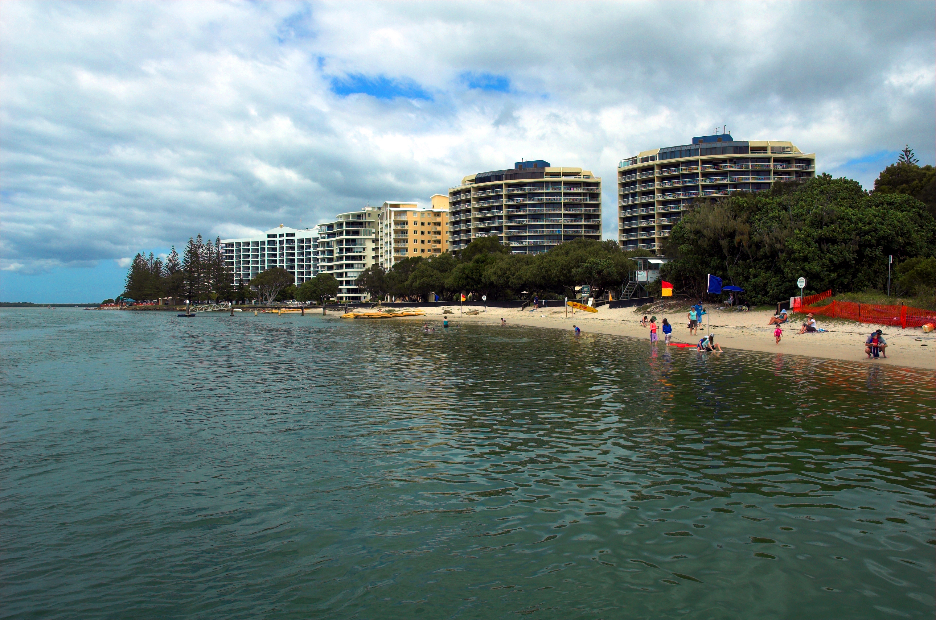 Caloundra, Queensland - Golden Beach